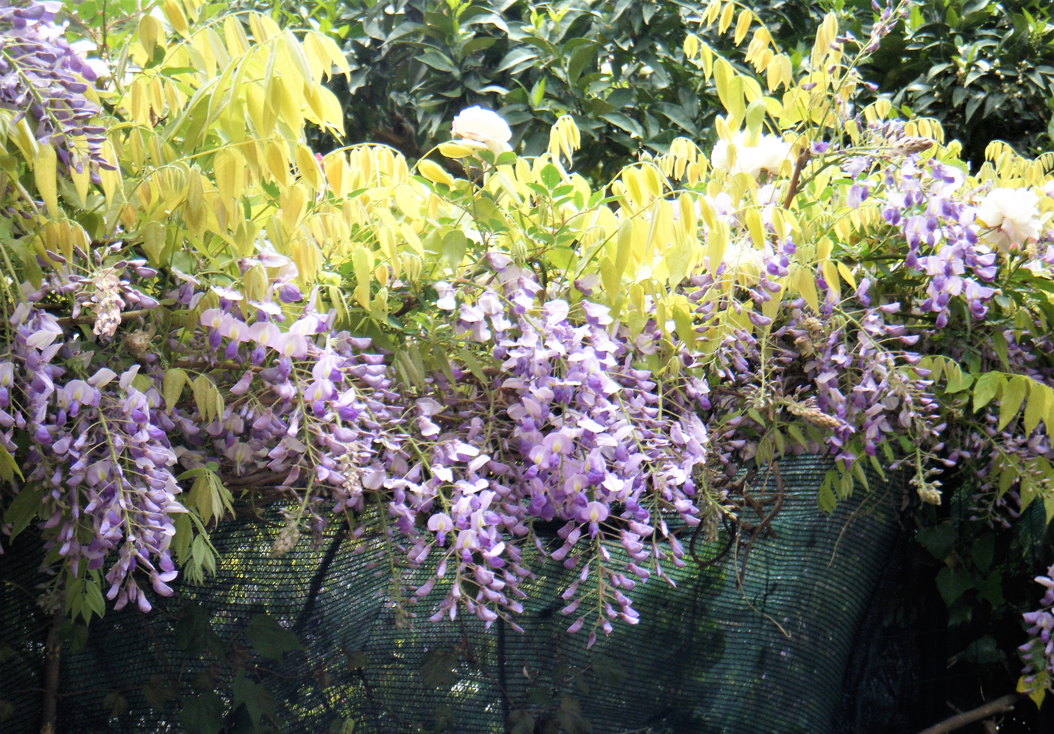 Wisteria in April